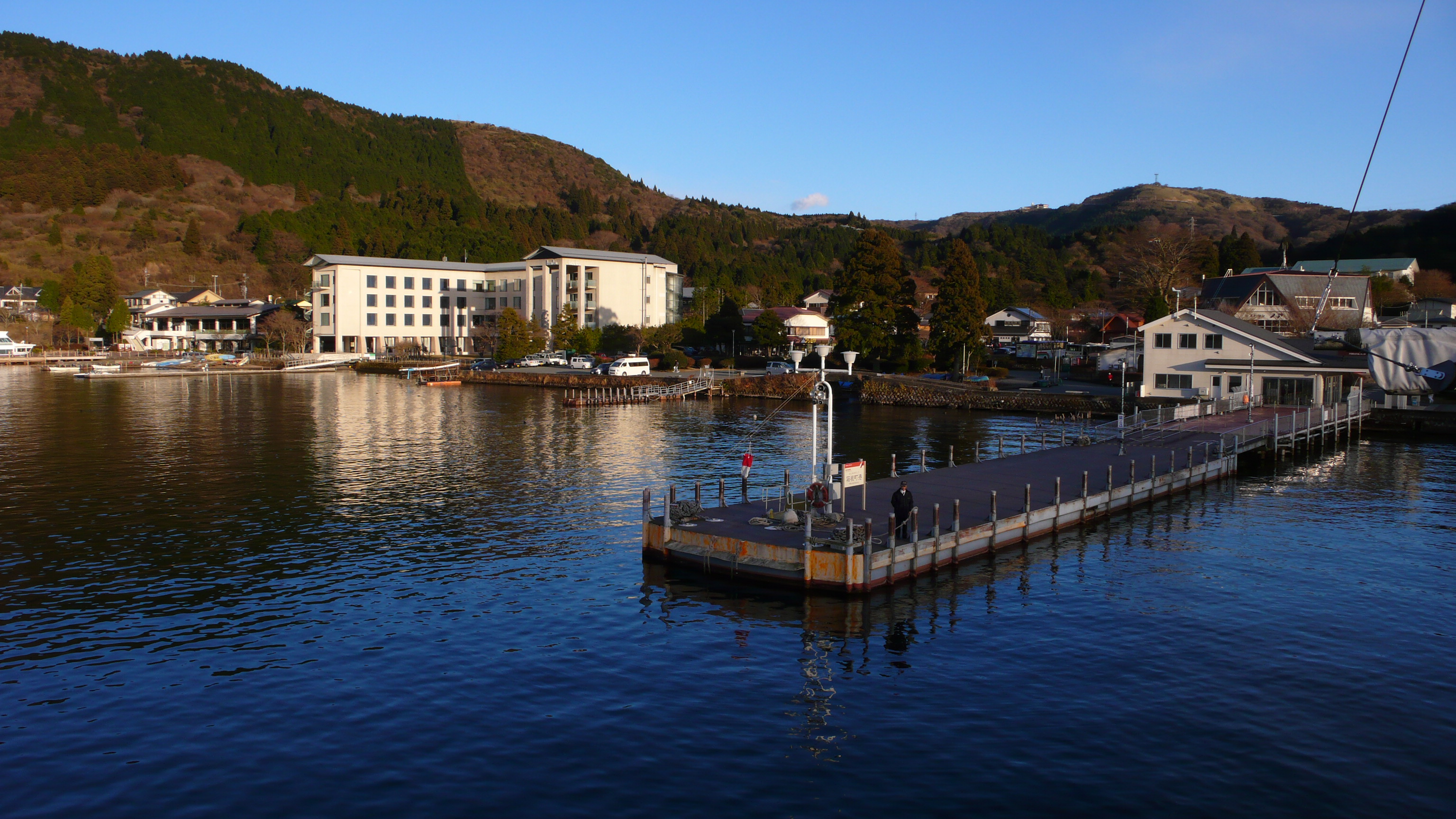 Hakone-machi port (Jan. 2009)